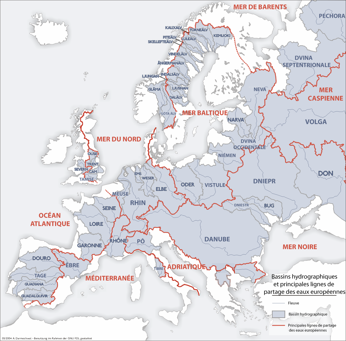 Improvement of Lignedepartagedeseaux.png